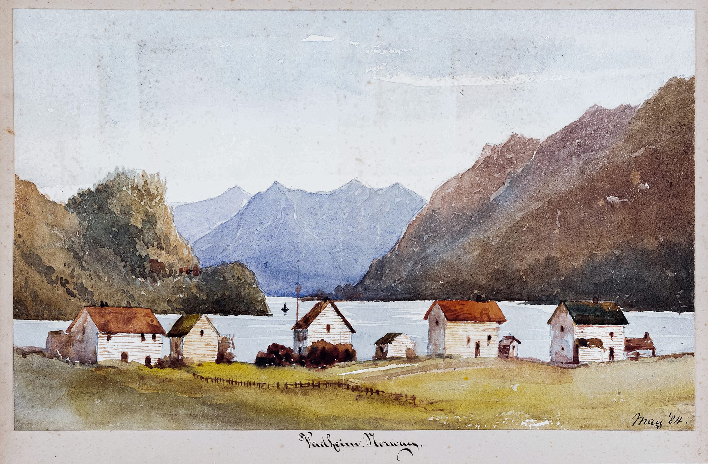 From an album offered for sale by Abbott and Holder in March 2020 when it was described as "An album of 28 watercolours of Norway signed and dated July 29th 1884 in the frontispiece. Mostly 4×7 and 7×9.75 inches."